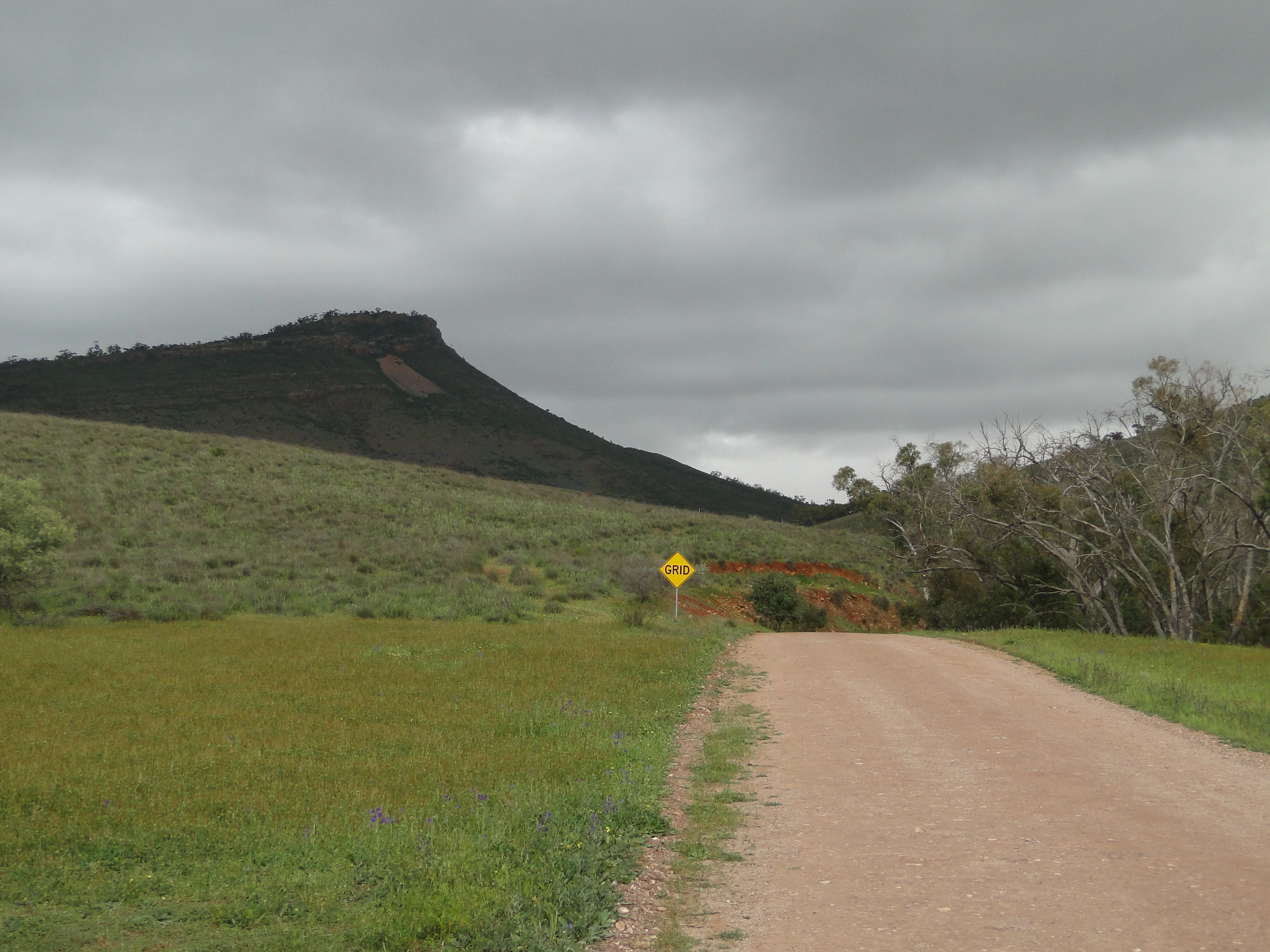 Approaching The Dutchmans Stern in the Flinders Ranges, South Australia